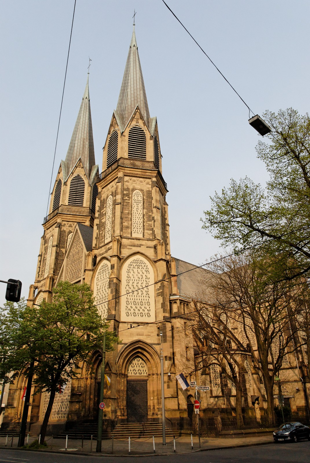 Saint Maria Empfängnis in Düsseldorf-Stadtmitte, Germany